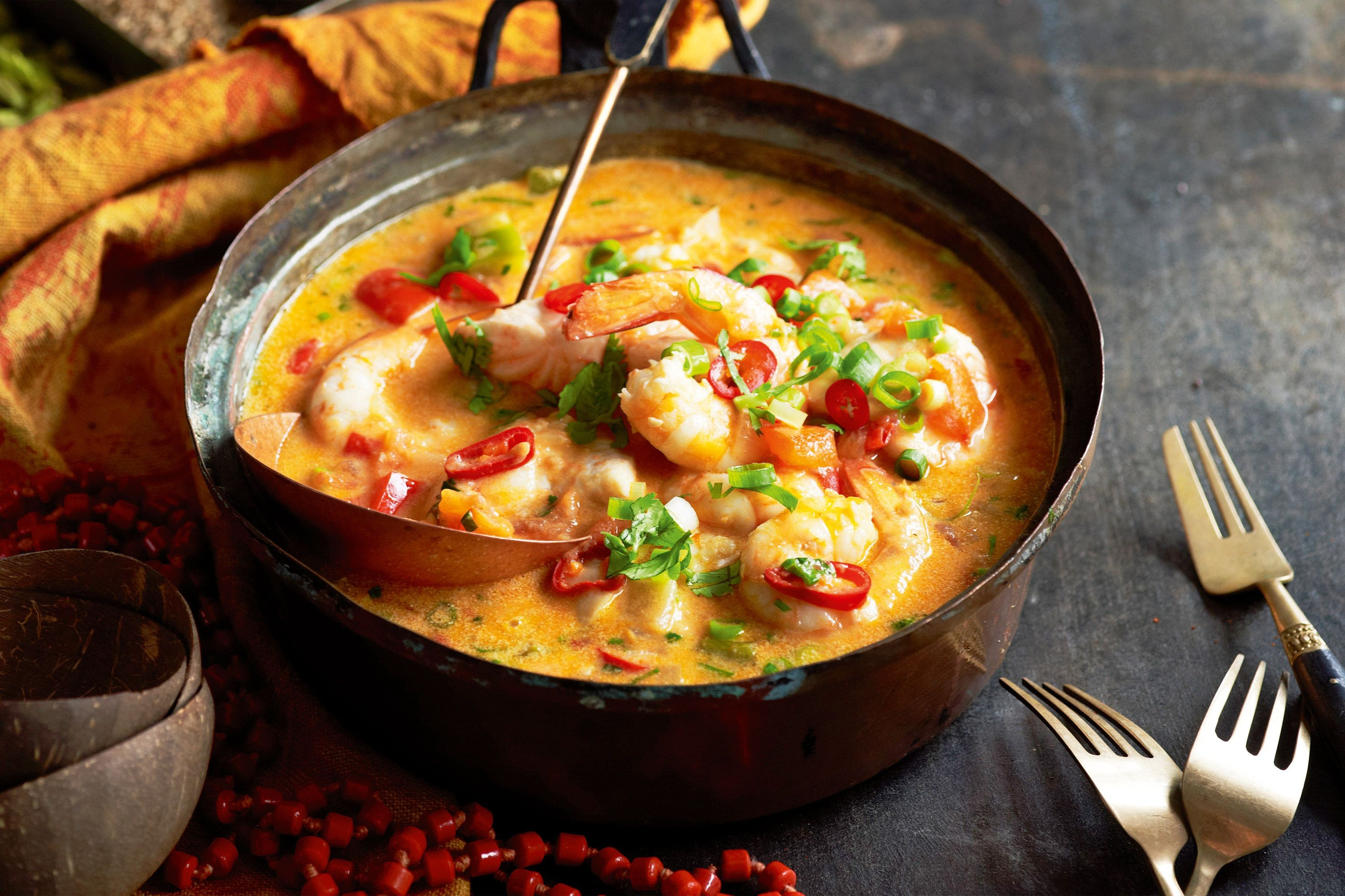 Moqueca de peixe